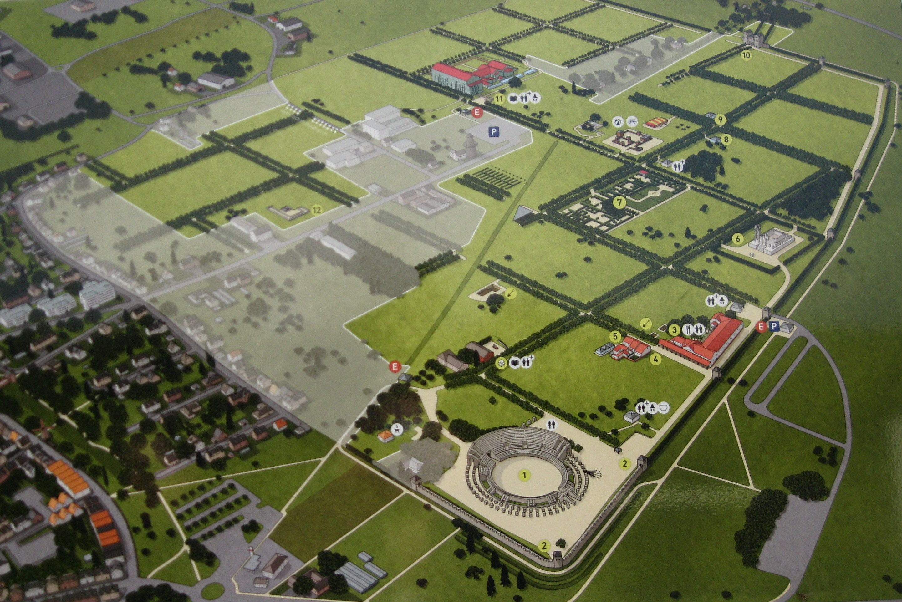 Plan. Archeological park Xanten